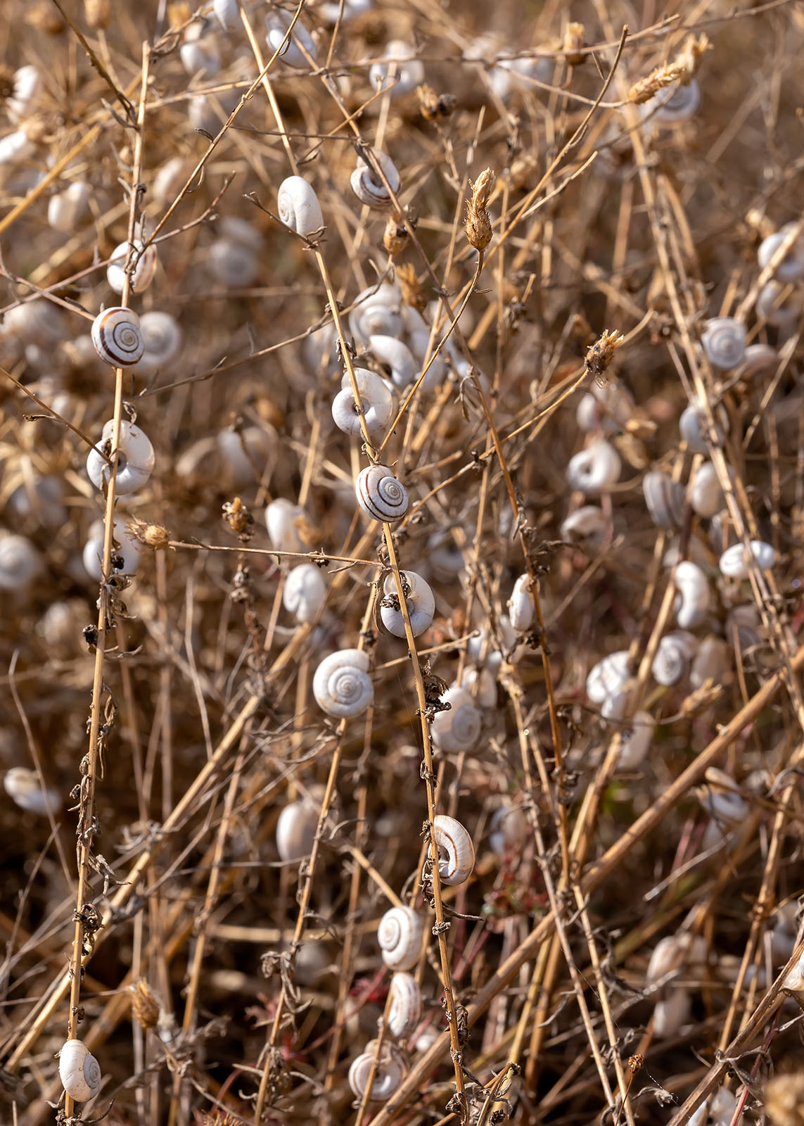 Nature of Macedonia